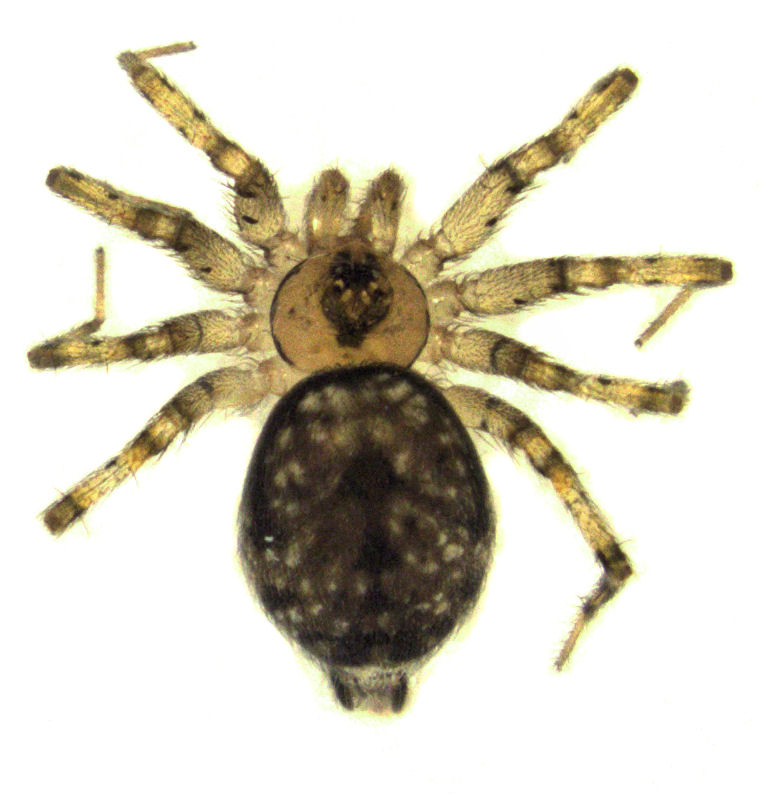 adult female Oecobius navus, dorsal habitus (body length about 3 mm)